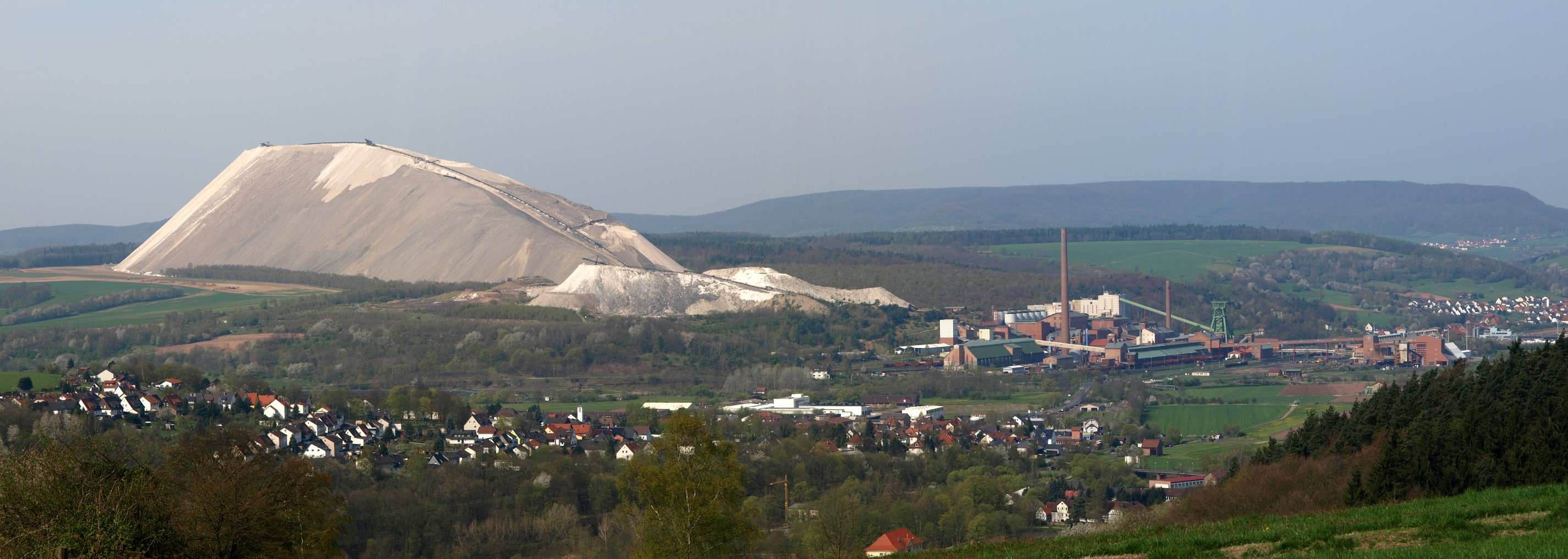 Panoramic of view of potash mine in Philippsthal (Werra), with mining dump. Taken from Siechenberg